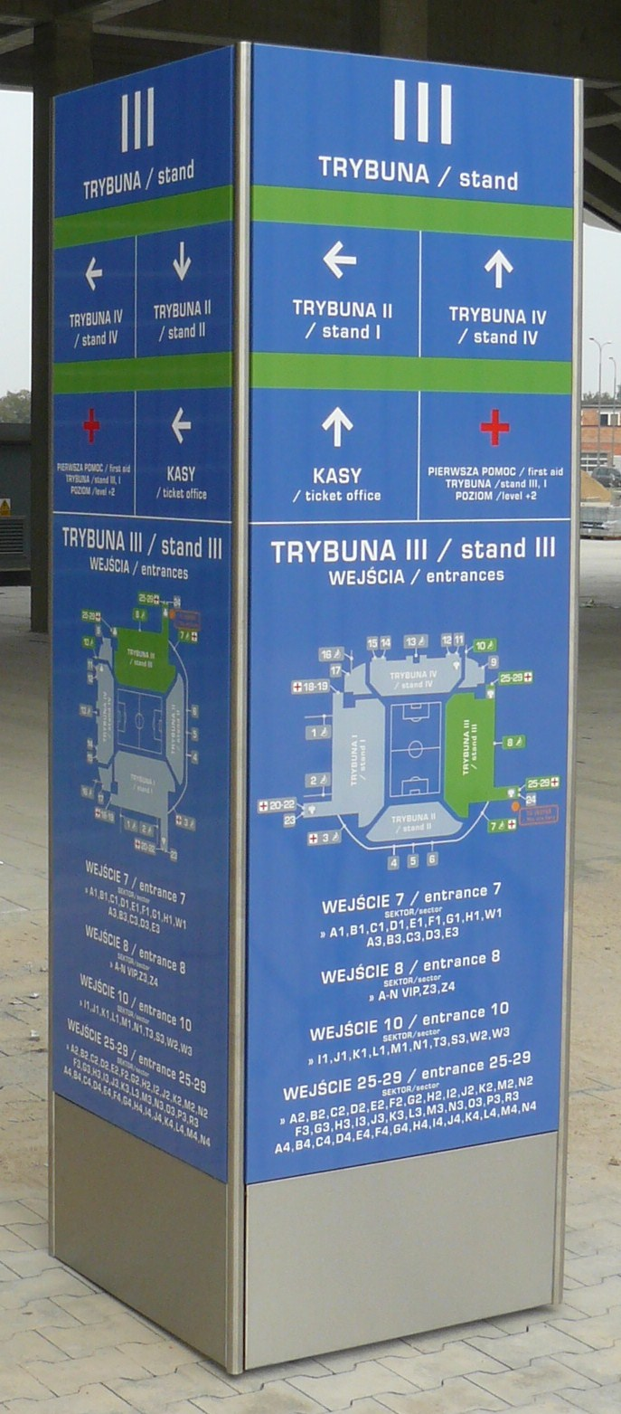 Poznan - City (Lech) Stadium, info-point